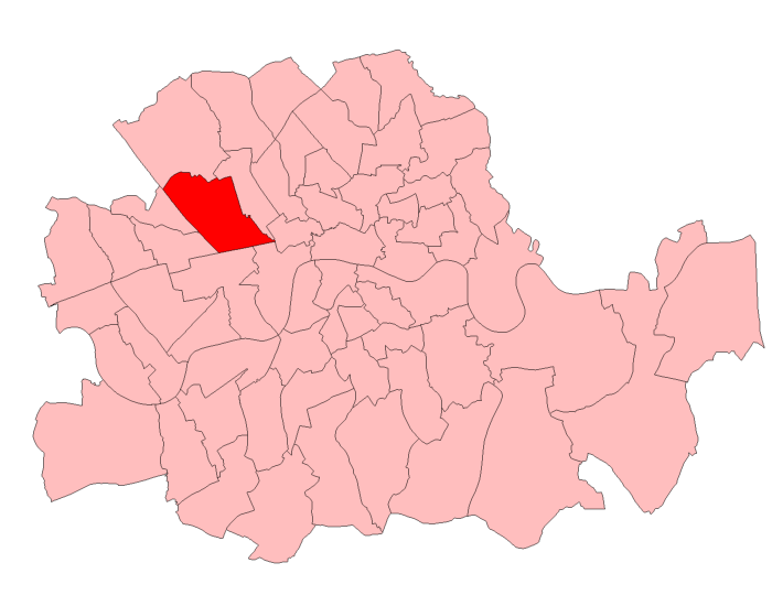 A map of St Marylebone constituency within the London County Council area, as it existed from 1918 to 1949.